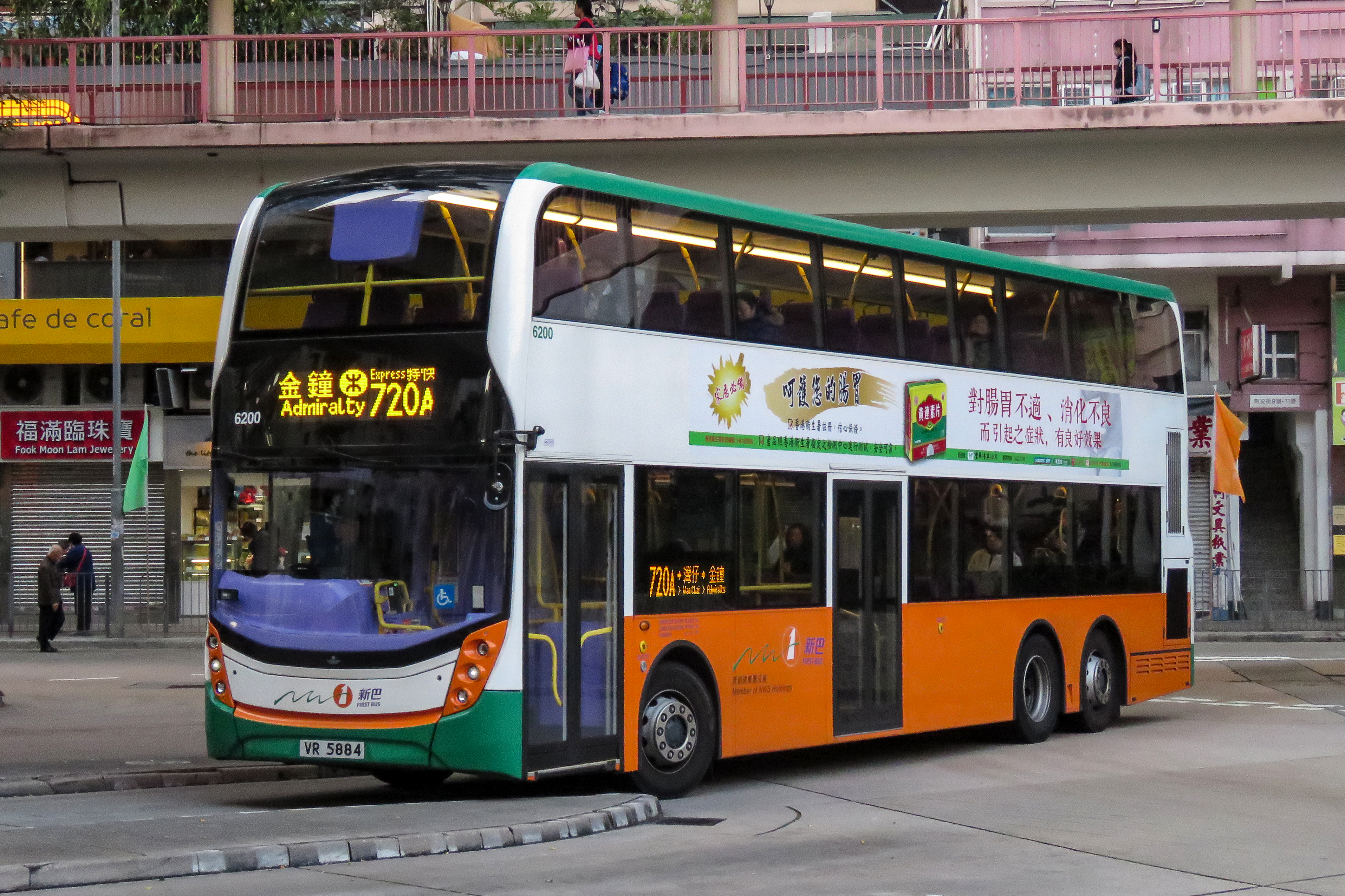 Is today the day of 720 Family?